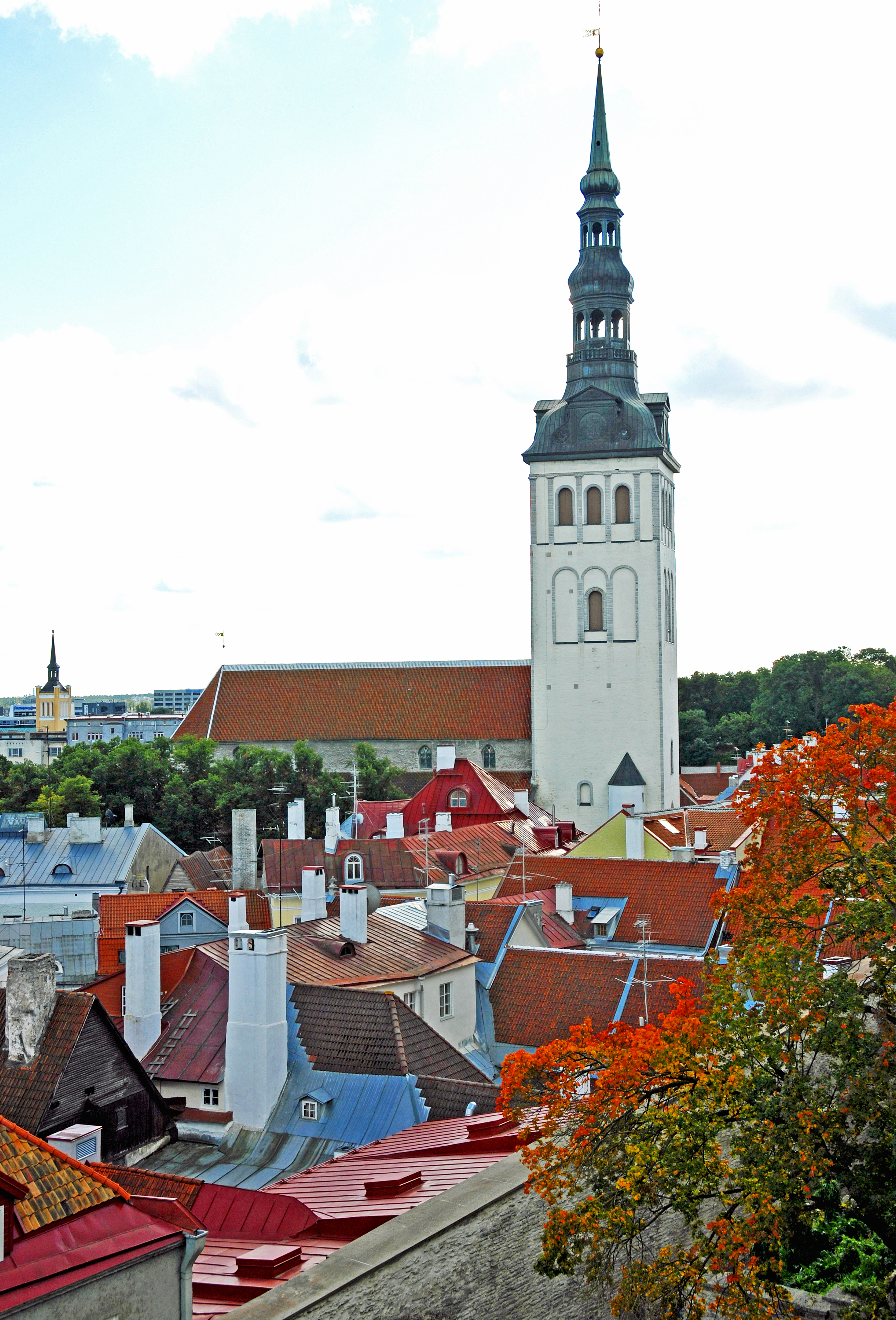 Looking out over the lower part of Old Town from the lookout on Toompea Hill.